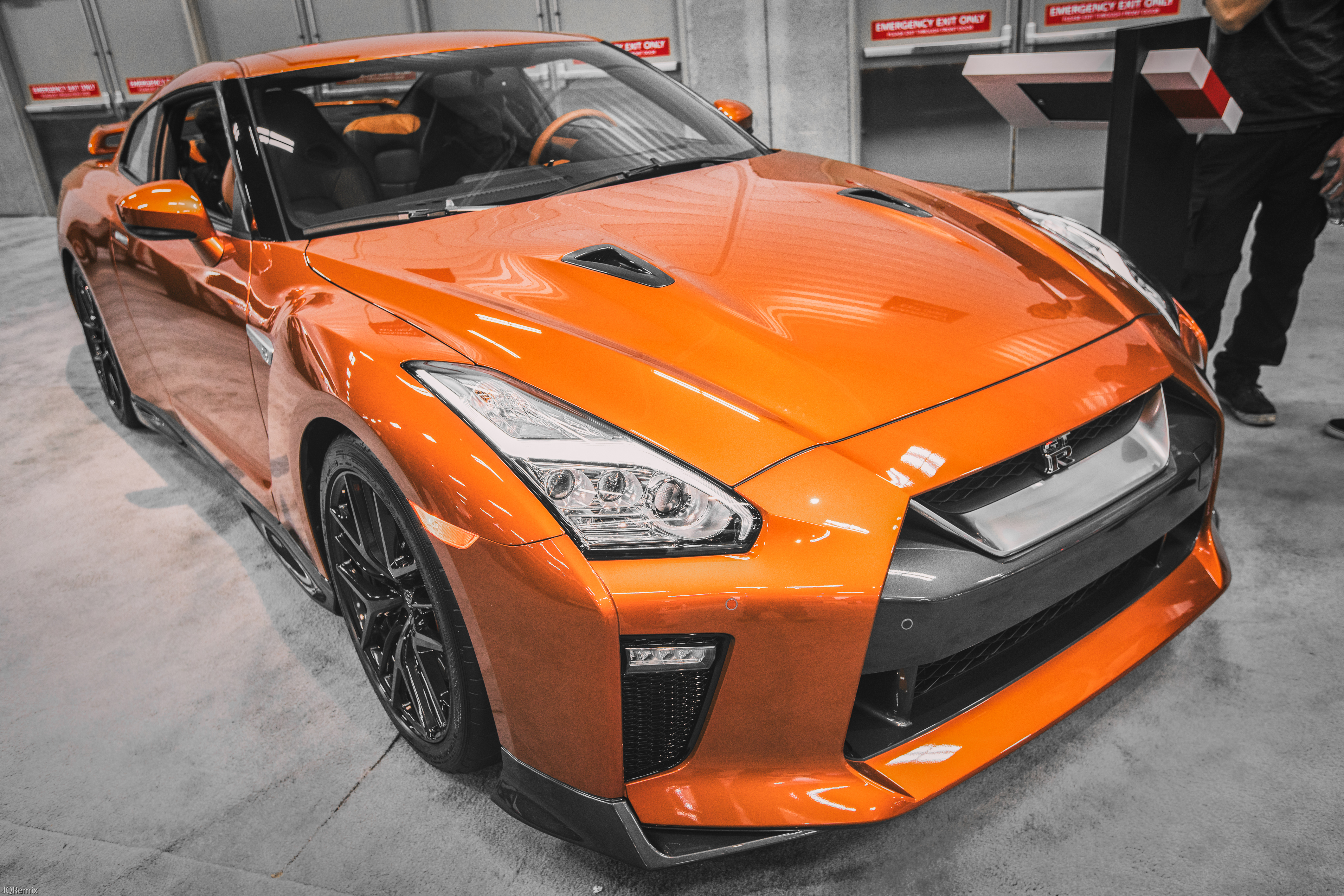 Edmonton Motor Show 2017